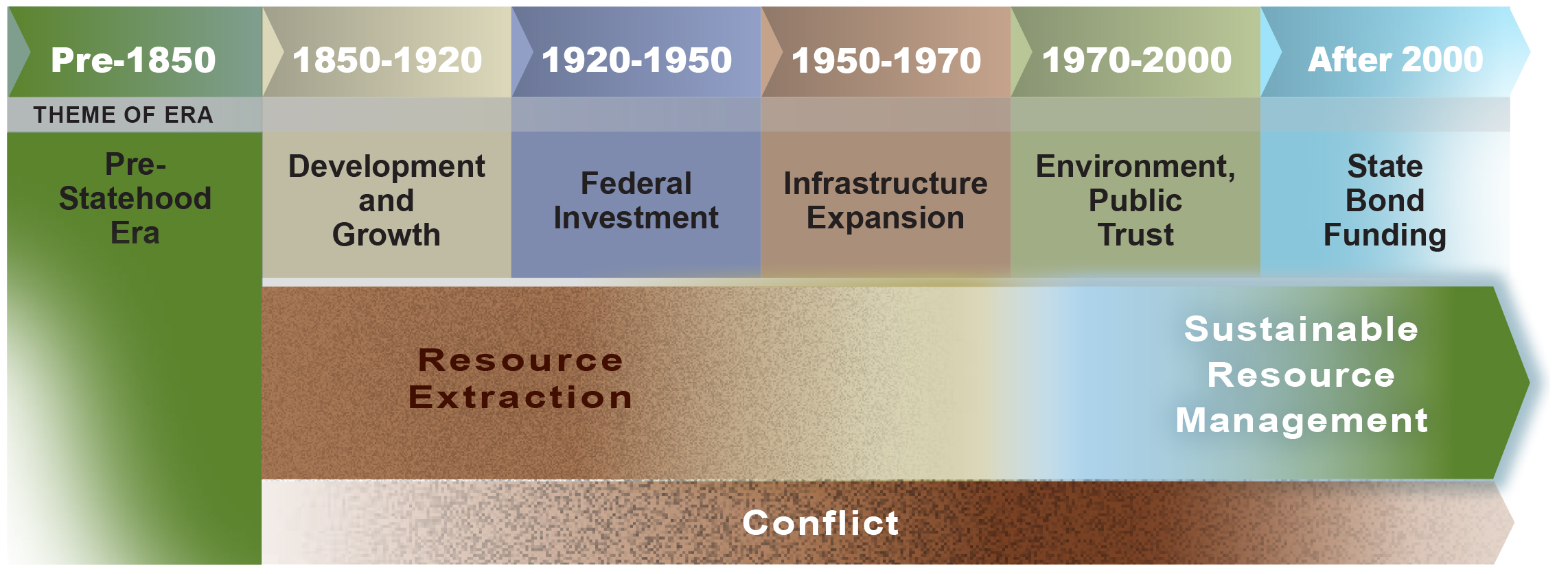 Funding graphic from the California Water Plan Update 2013.